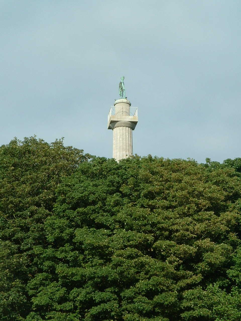 The Marquess of Anglesey's Column, Llanfairpwllgwyngyllgogerychwyrndrobwllllantysiliogogogoch, Anglesey. Taken by Necrothesp, 25 June 2005.